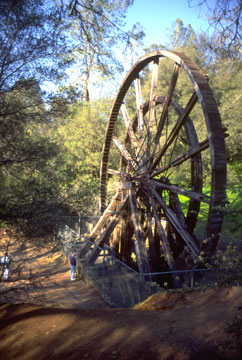 Kennedy Mining wheel at the Kennedy Mine in Amador County, California.